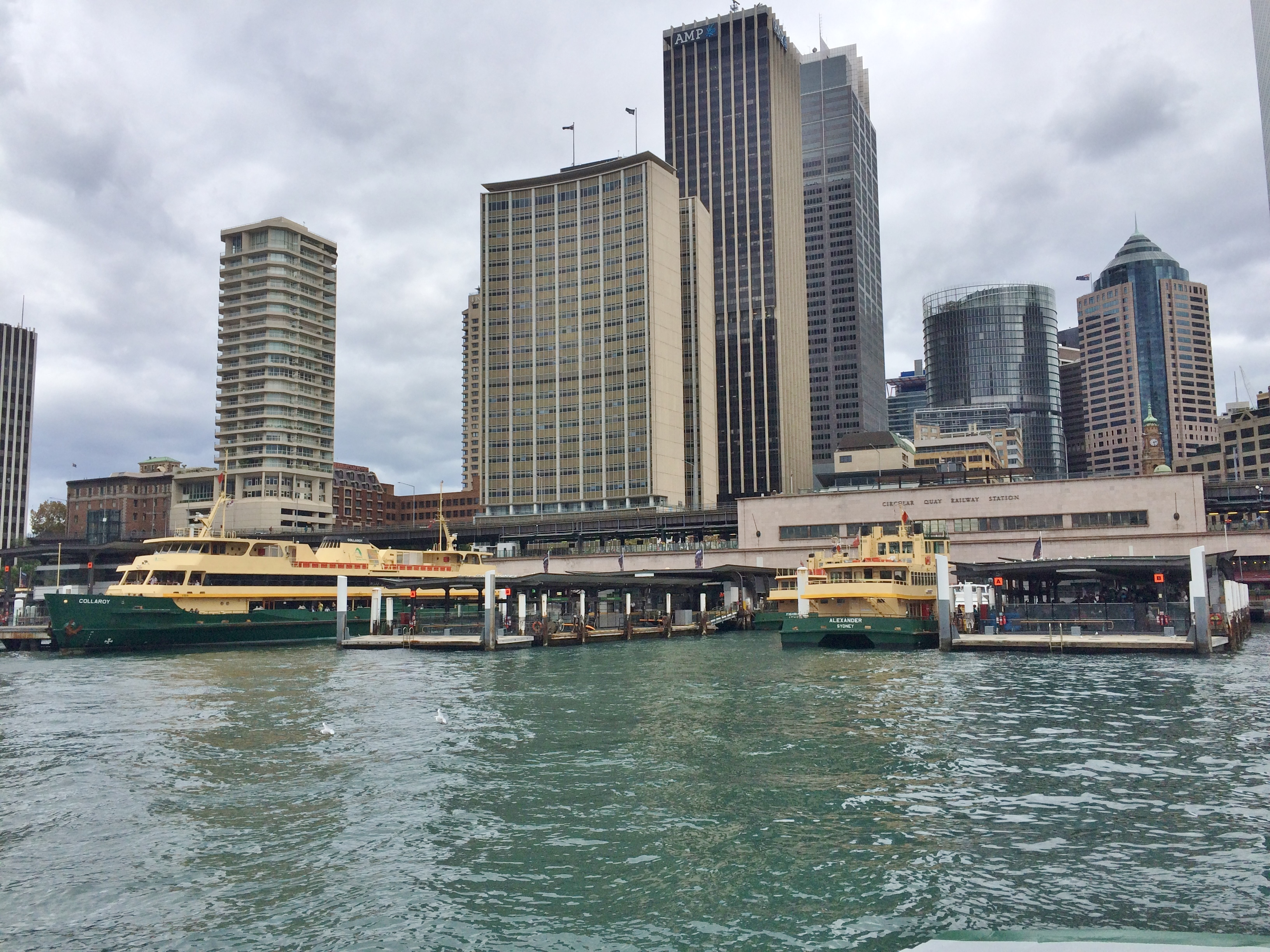 A view from the Circular Quay ferry wharf complex from Sydney Cove, aboard the Rivercat Marlene Mathews. The Freshwater class ferry Queenscliff can be seen docked at Wharf 3 for F1 Manly services, and the First Fleet class ferry Alexander docked at Wharf 5 for F4 Darling Harbour services.